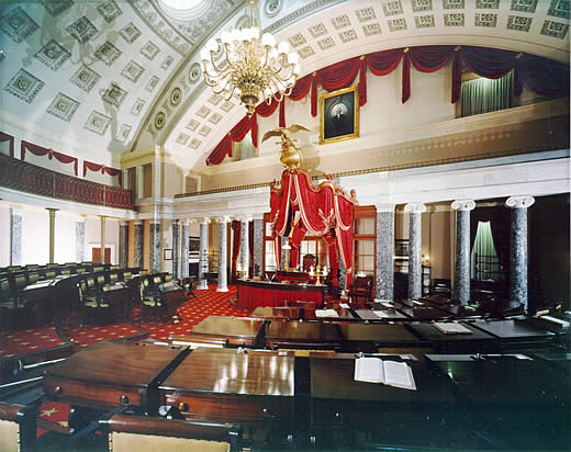 Photograph of the Old Senate Chamber of the United States Capitol located at: Architect of the Capitol website on the Old Senate Chamber.